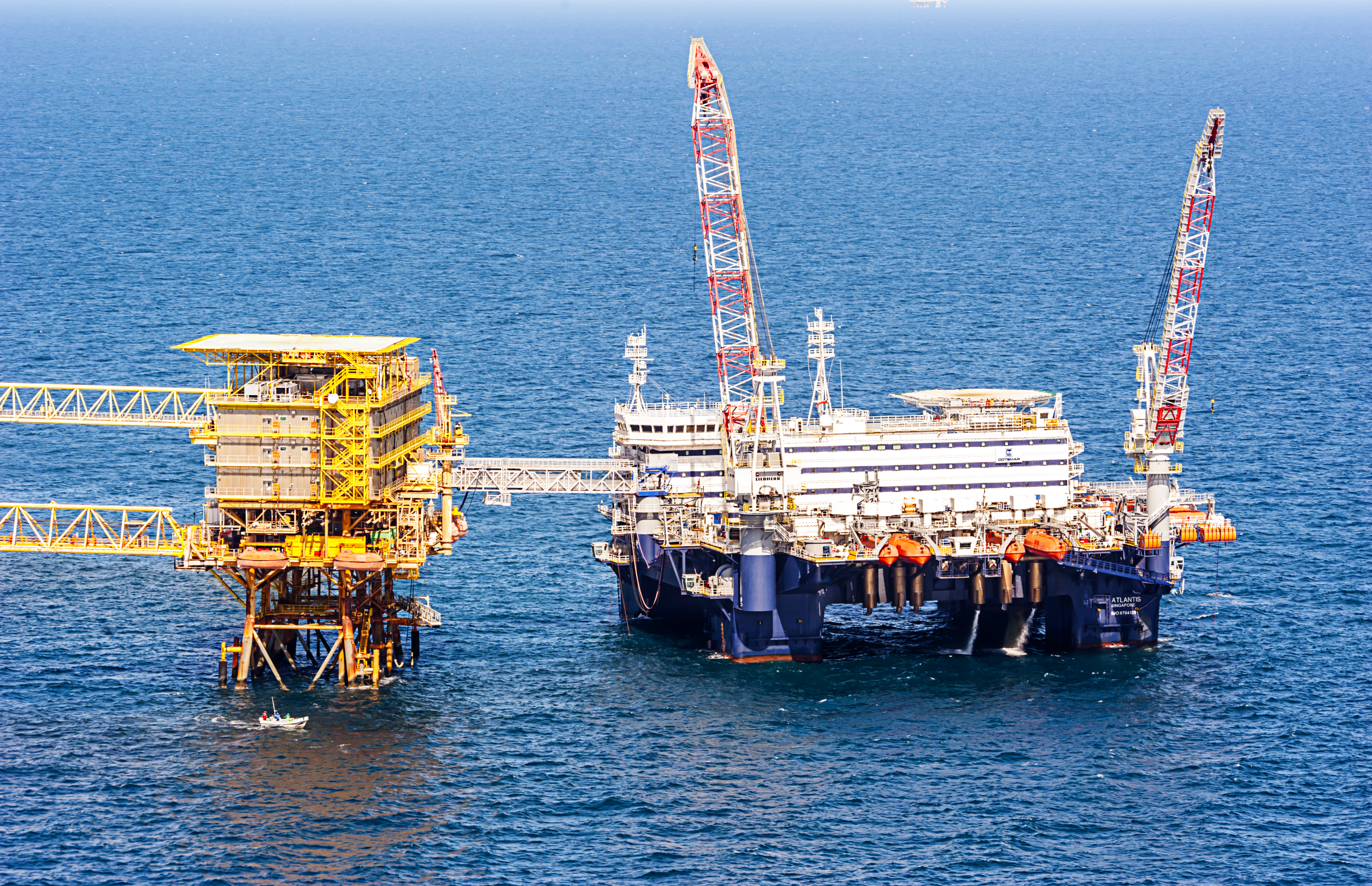 Atlantis vessel in the Gulf of Mexico